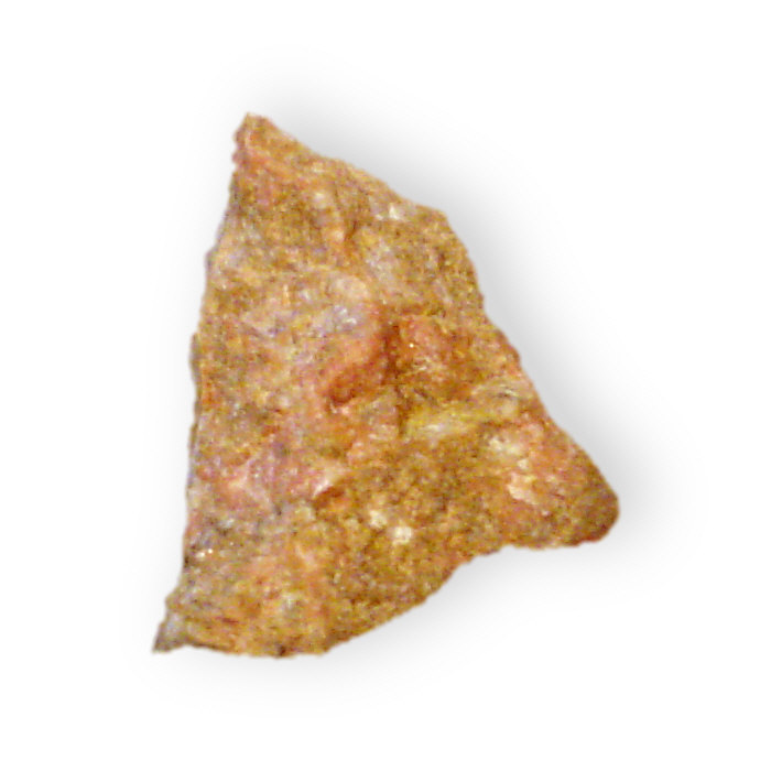 These mineral images are free to use how you wish.